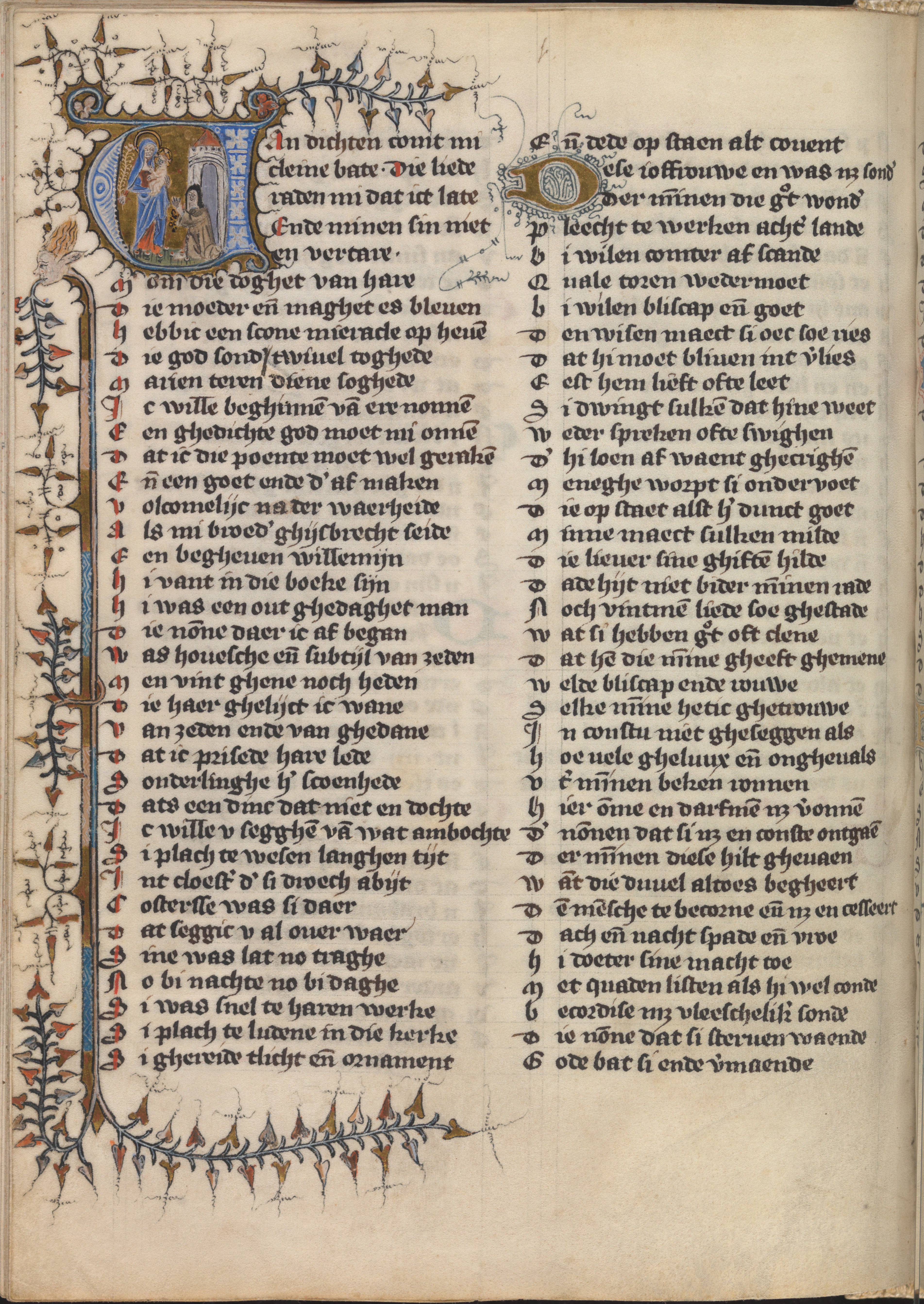 Beatrijs. This text is folium 047v of the manuscript KB 76 E 5 containing Die Dietsche Doctrinale by Jan van Boendale, Beatrijs, Dit es vanden aflate van Rome, Die heimelicheit der heimelicheden by Jacob van Maerlant and other texts About the illumination The historiated initial shows Beatrijs kneeling before Mary holding the Christ-child Mary standing (or half-length), the christ-child sitting on her arm (christ-child to mary's left) (11F4122) Legends and miracles ~ mary (11F83) Nun(s) (11P31522) Roman script; scripts based on the roman alphabet (u) (49L12(U)) Historiated initial (49L171) Historical person (beatrijs) - fictitious scene ~ historical person (beatrijs) (61B2(BEATRIJS)22)